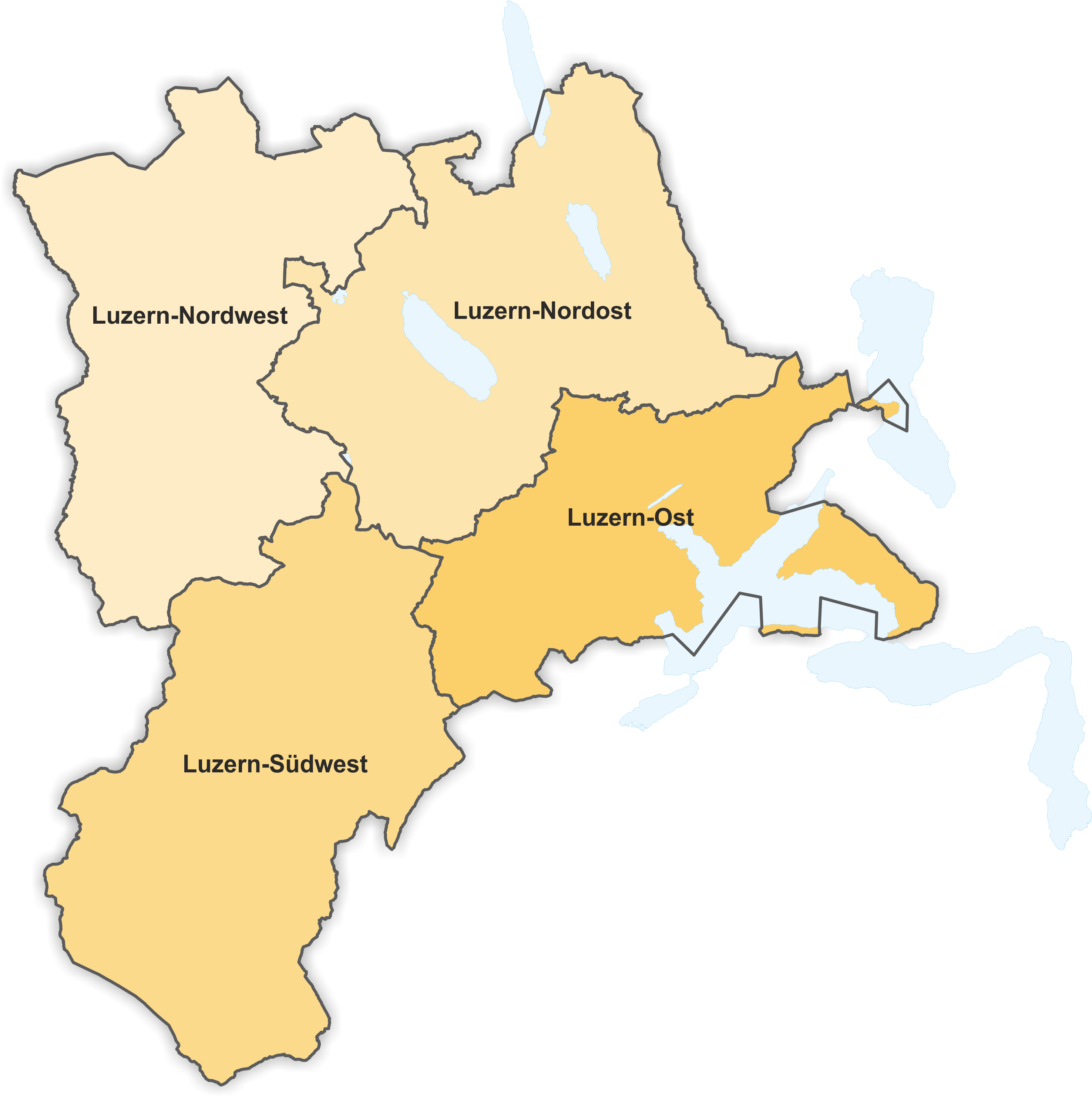 National council constituencies in the canton of Lucerne from 1872 to 1887